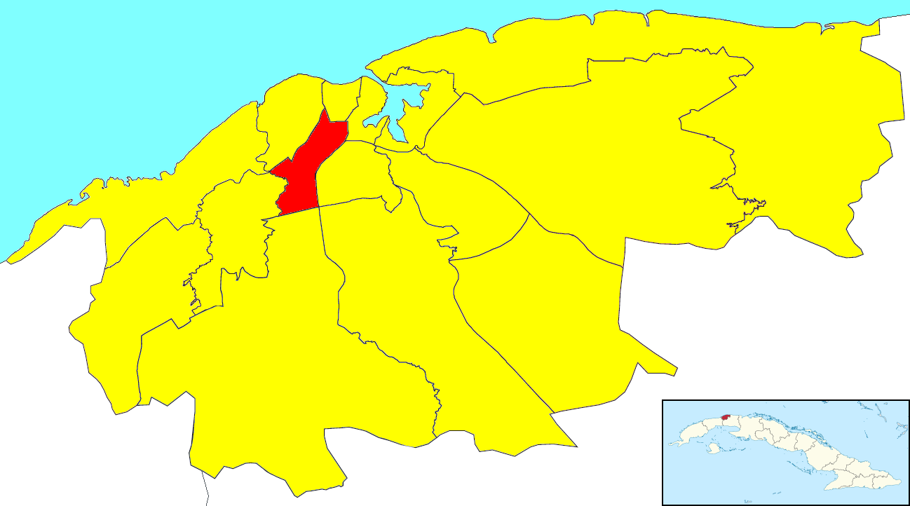 A map of the municipality of Cerro (shown in red) within the city of Havana (yellow). The little Cuban map in the corner shows Havana (dark red) within the island.